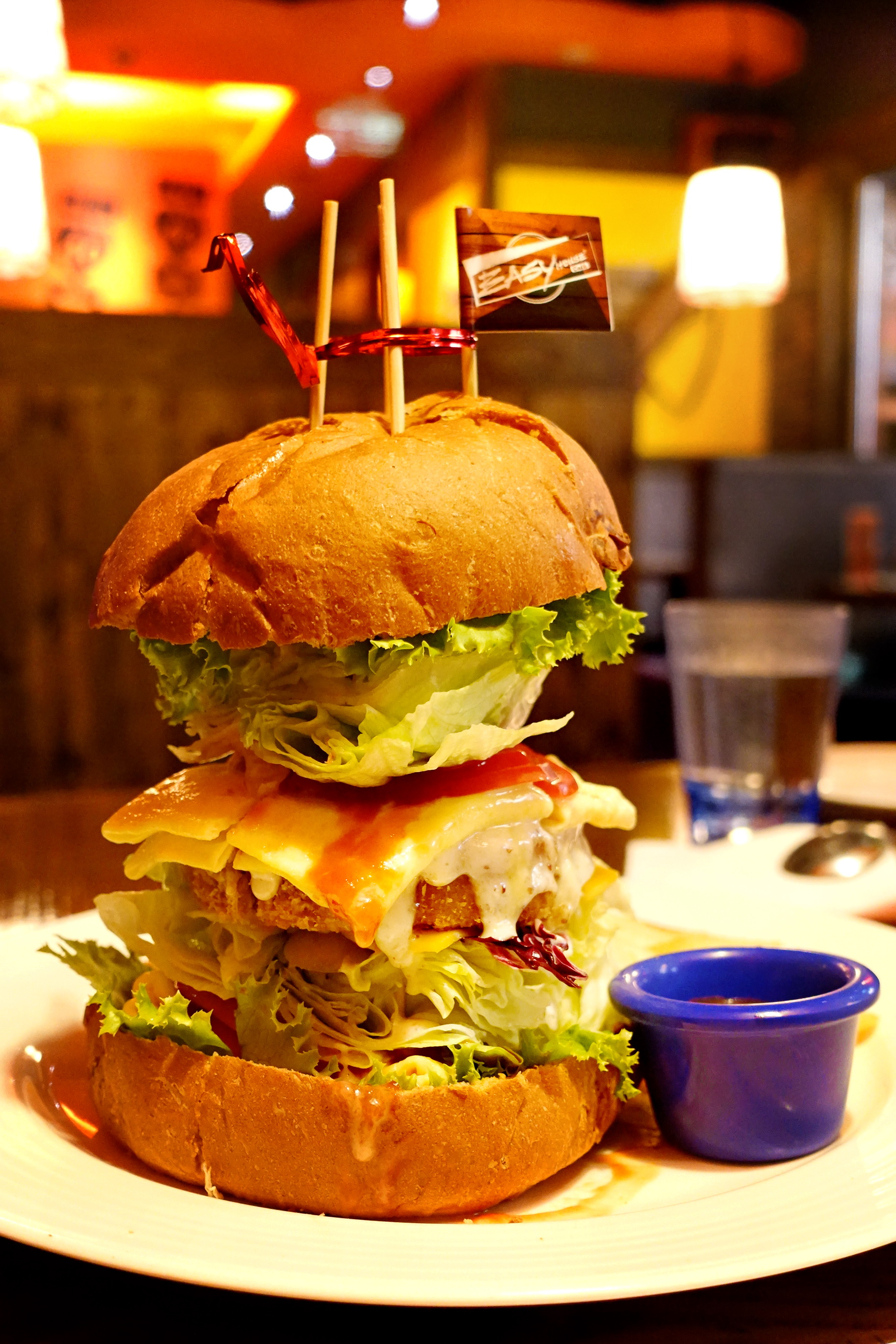 A vegetarian burger (served at the Easy House Cafe, Taichung, Taiwan)